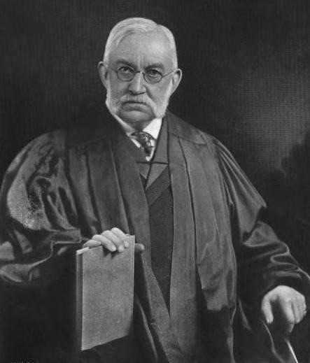 Frederick David Ely, congressman from Massachusetts